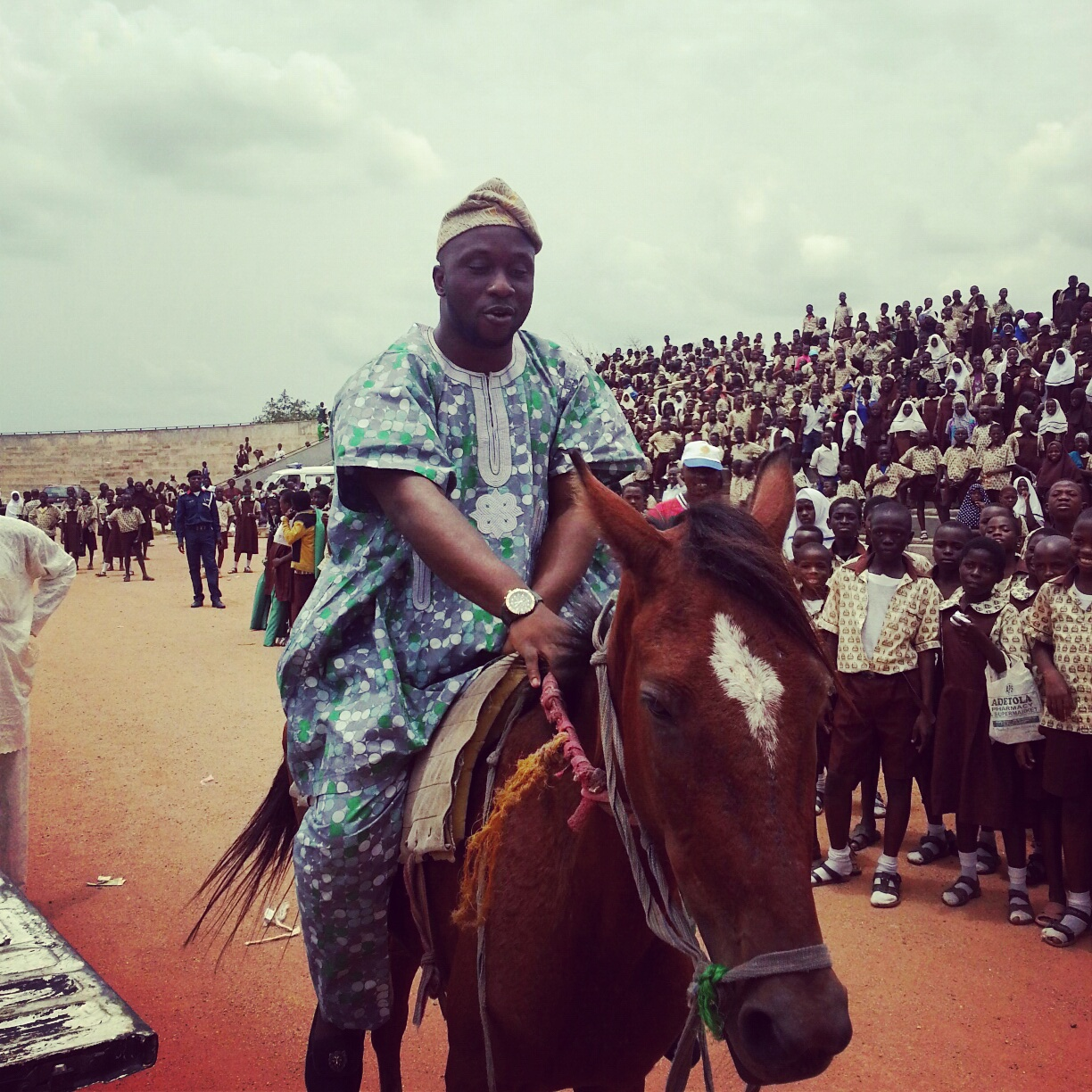 A Yoruba Hero Regalia from a town called Ilobu in Osun State, Nigeria. Folawiyo Kareem Olajoku rides the horse in celebration of an Ilobu festival. This is an image of Cultural Fashion or Adornment from Nigeria